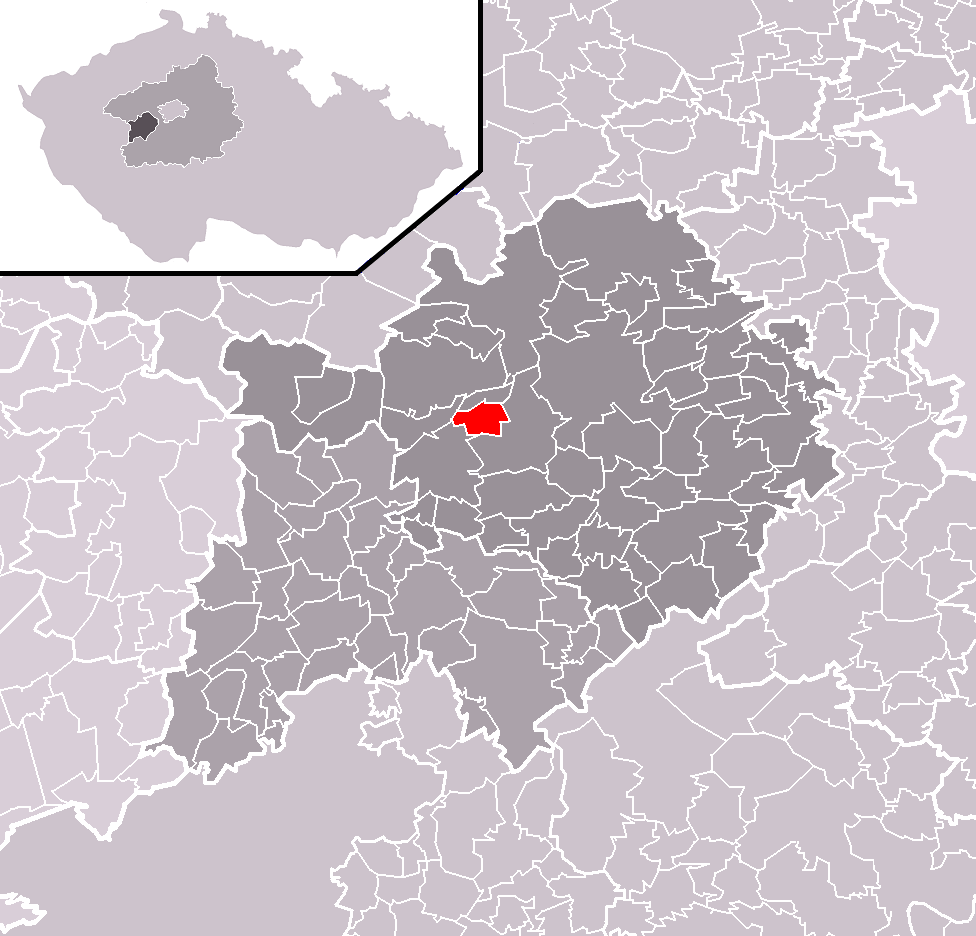 Location of Trubín municipality within Beroun District and administrative area of Beroun as a Municipality with Extended Competence.